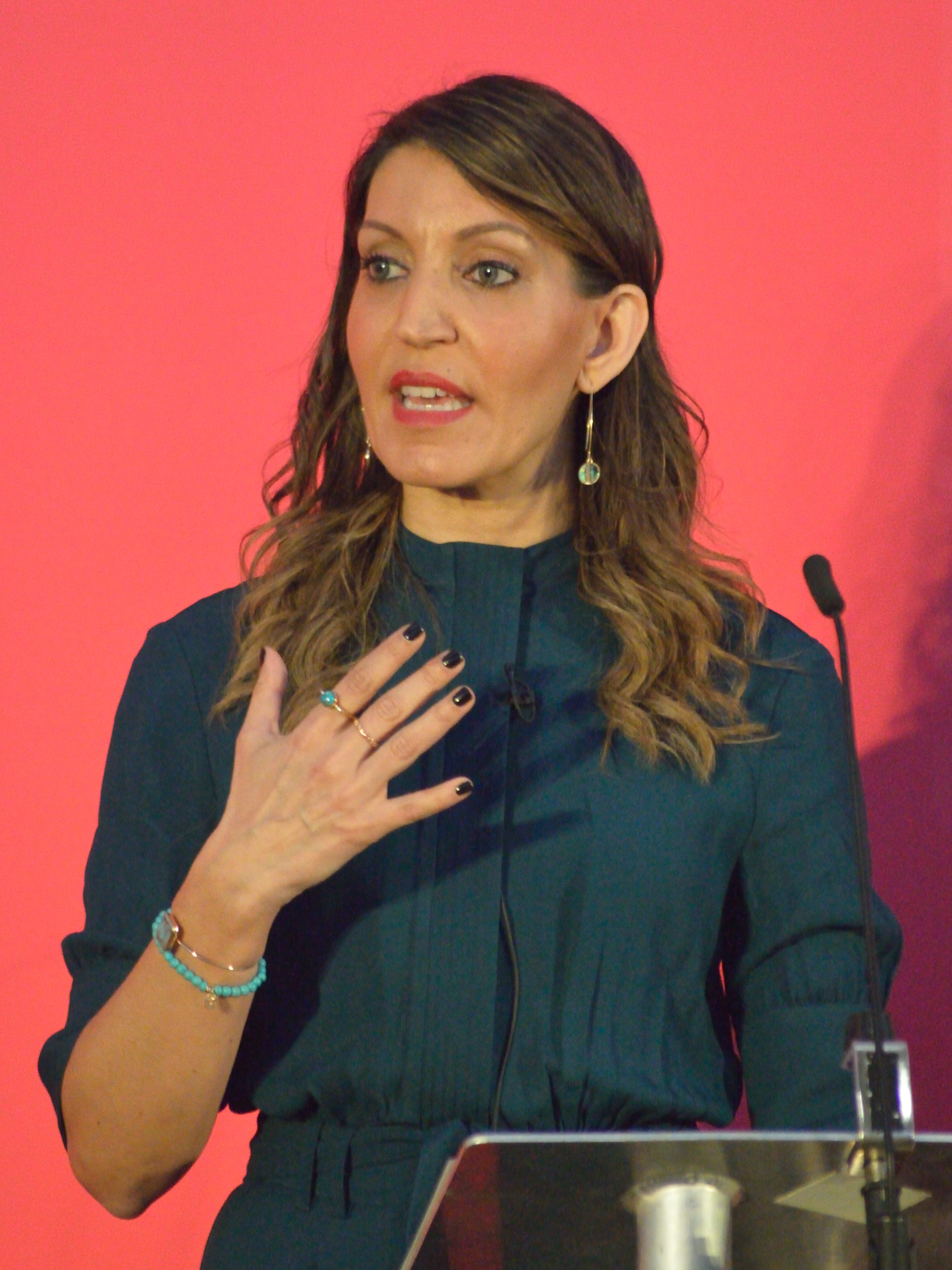 Rosena Allin-Khan speaking at the 2020 Labour Party deputy leadership election hustings in Bristol on the afternoon of Saturday 1 February 2020, in the Ashton Gate Stadium Lansdown Stand.